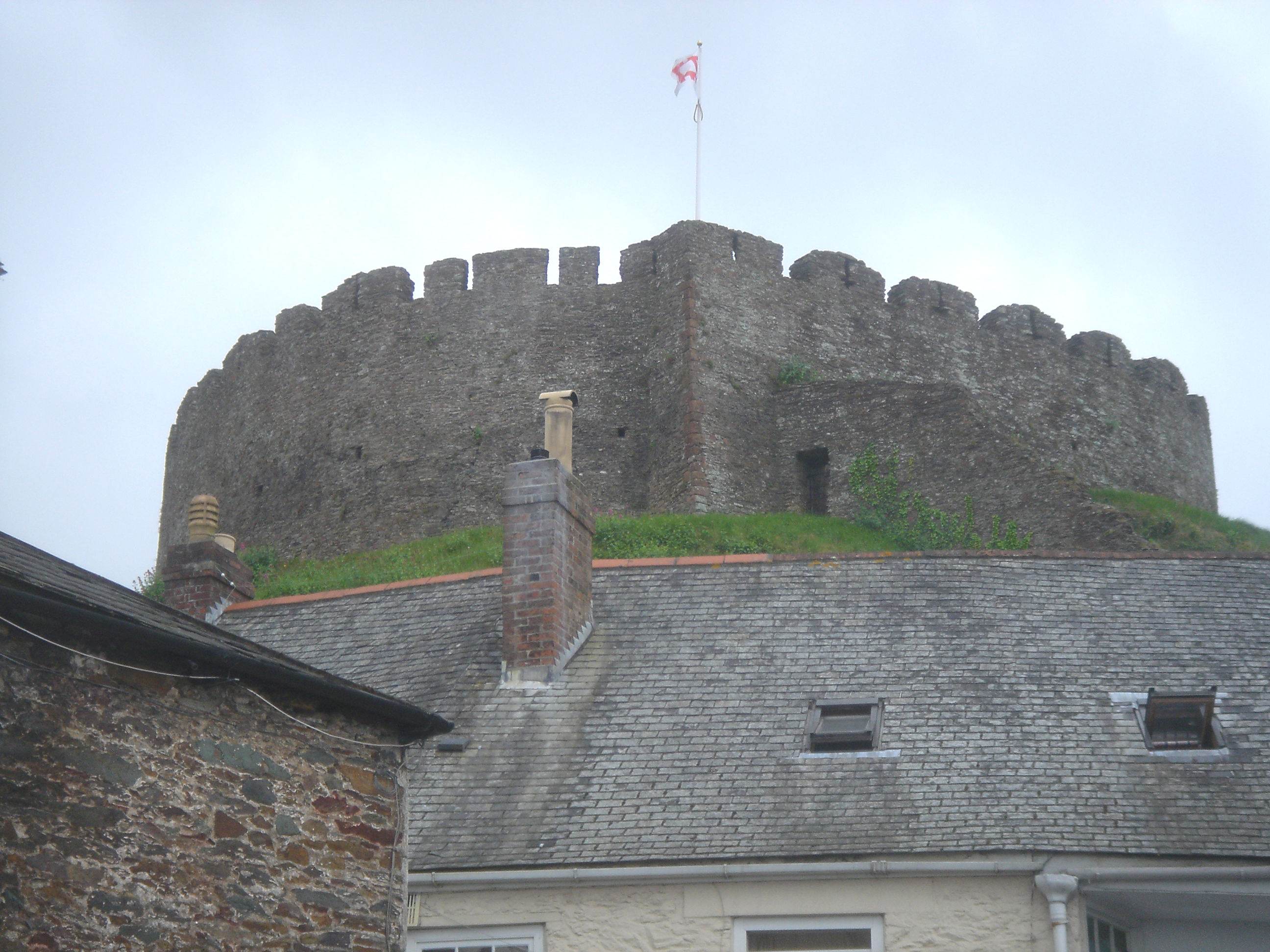 Totnes Castle, Devon, UK, viev from Castle Street